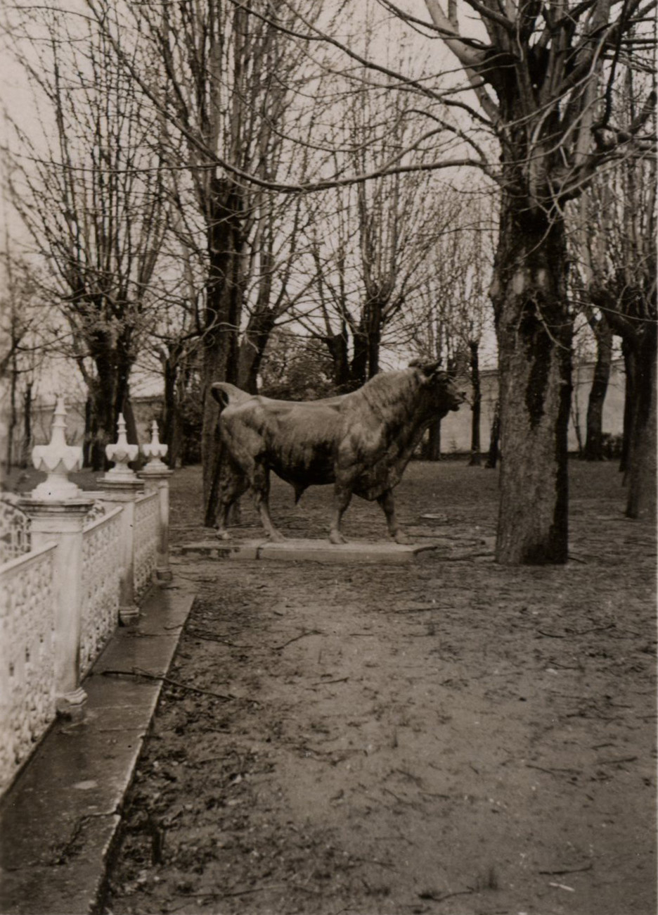 The roaring bull statue in Beylerbeyi Palace SALT Research, Ali Saim Ülgen Archive Beylerbeyi Sarayı’nda Böğüren Boğa heykeli SALT Araştırma, Ali Saim Ülgen Arşivi